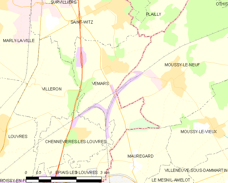 Map of French municipality Vémars